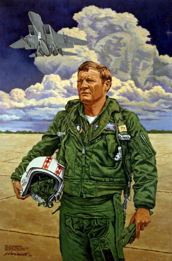 An oil painting of USAF Colonel Ed Hubbard that hangs in the Pentagon as part of the USAF Art program. Hubbard was a POW in North Vietnam from 1966 to 1973.